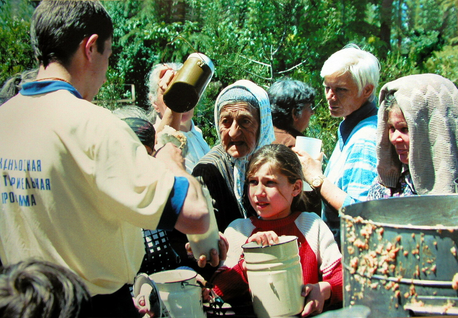 ISKCON Food for Life in Russia: Hare Krishna devotees distributing free vegetarian meals